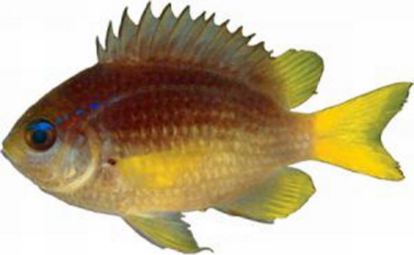 The yellowtail reeffish, Chromis enchrysura, a planktivorous damselfish that lives on shallow and deep coral reefs of the Atlantic Ocean and Gulf of Mexico.